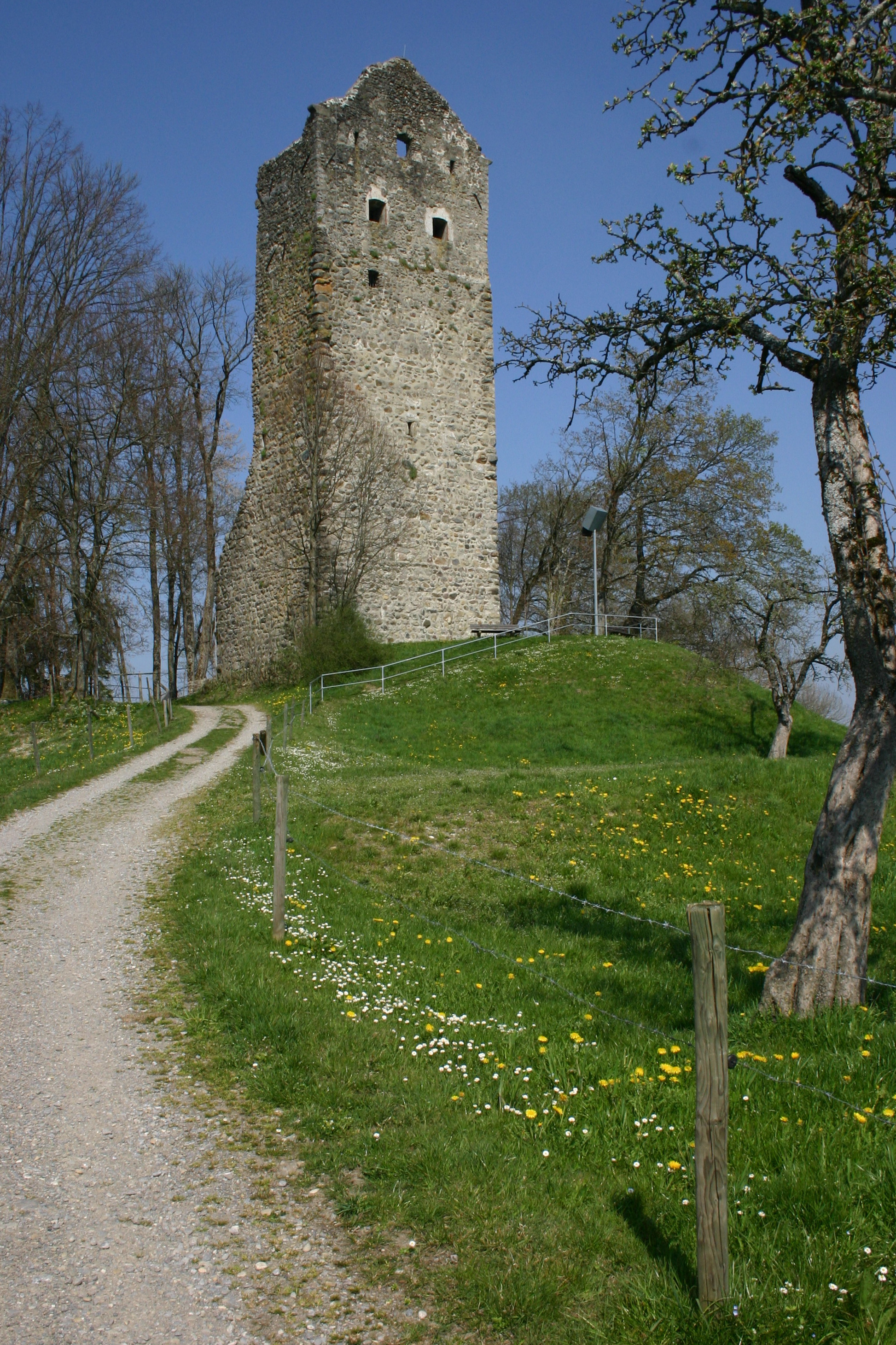 Castle ruin "Neuravensburg" in Wangen im Allgäu, southeast Baden-Württemberg, Germany